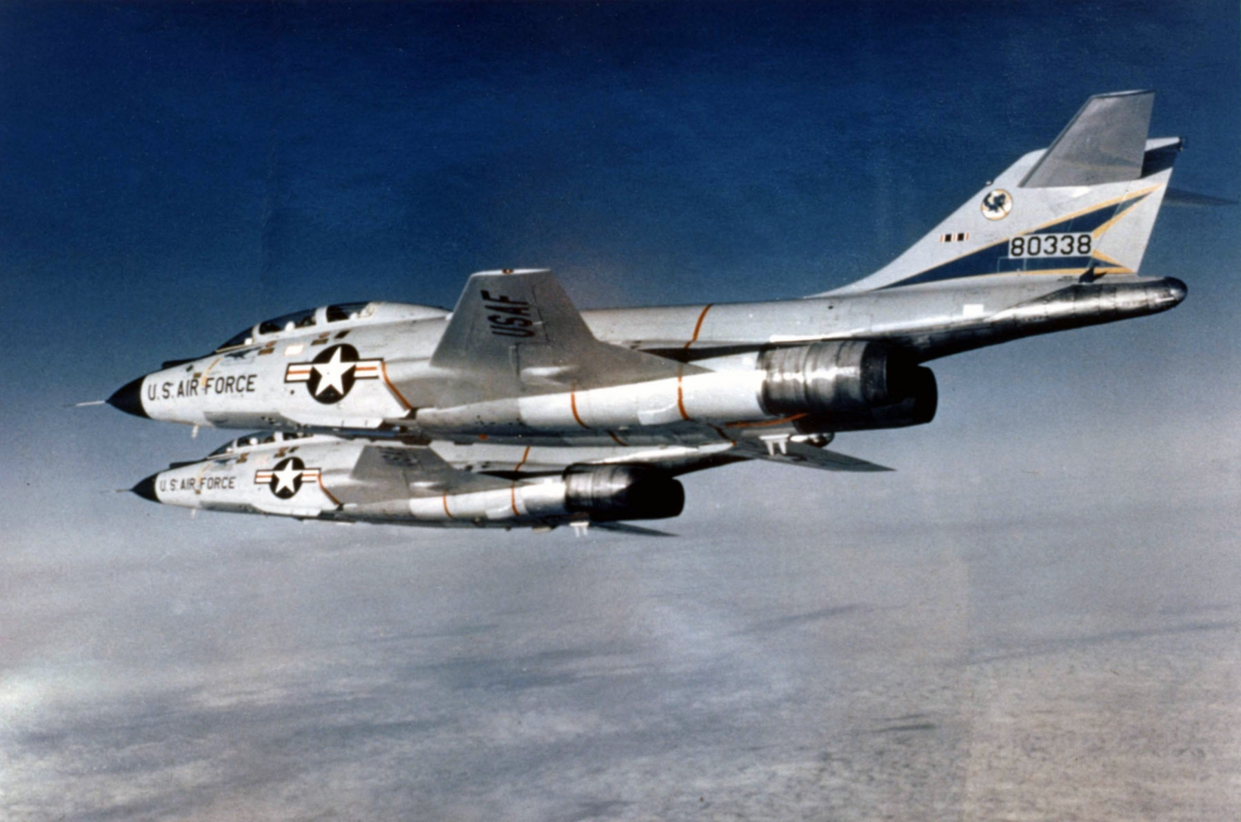 Two U.S. Air Force McDonnell F-101 Voodoo fighters of the 18th Fighter-Interceptor Squadron, Grand Forks Air Force Base, North Dakota (USA), in the 1960s. The F-101F-111-MC (s/n 58-0338) is in the foreground.